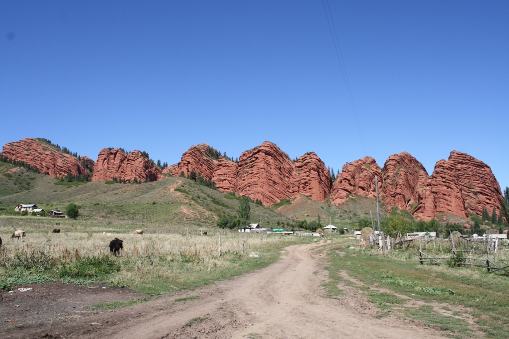 Jety-Oguz (Seven Bulls) is a legendary Rock formation in the Issyk-Kul Province of Kyrgyzstan, not far from Karakol.